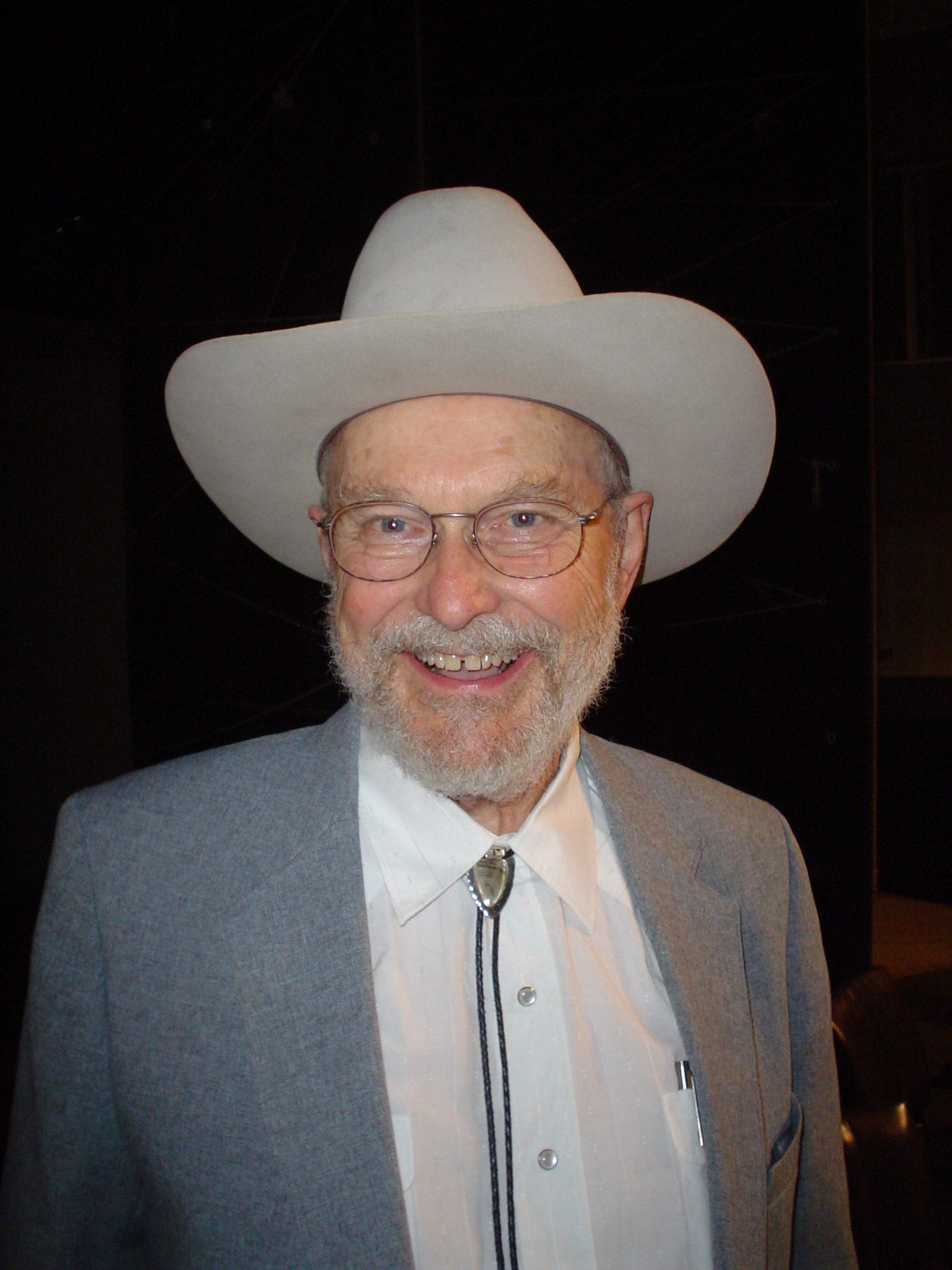 Loren Wilber Acton (born March 7, 1936) is an American physicist who flew on Space Shuttle mission STS-51-F as a Payload Specialist for the Lockheed Palo Alto Research Laboratory. Shot taken at Science City, Kolkata.